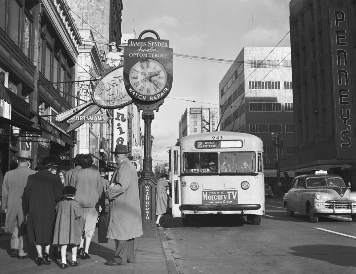 Seattle trolley bus 943, in service on route 2-West Queen Anne, loads at a stop in downtown in 1953. Trolley bus 943 was built in 1942 by Twin Coach. This view is looking east on Pike Street from First Avenue; the street was still two-way at the time, and the trolley bus is facing west, but Pike Street was later made eastbound-only. Item 44728, Engineering Department Photographic Negatives (Record Series 2613-07), Seattle Municipal Archives.